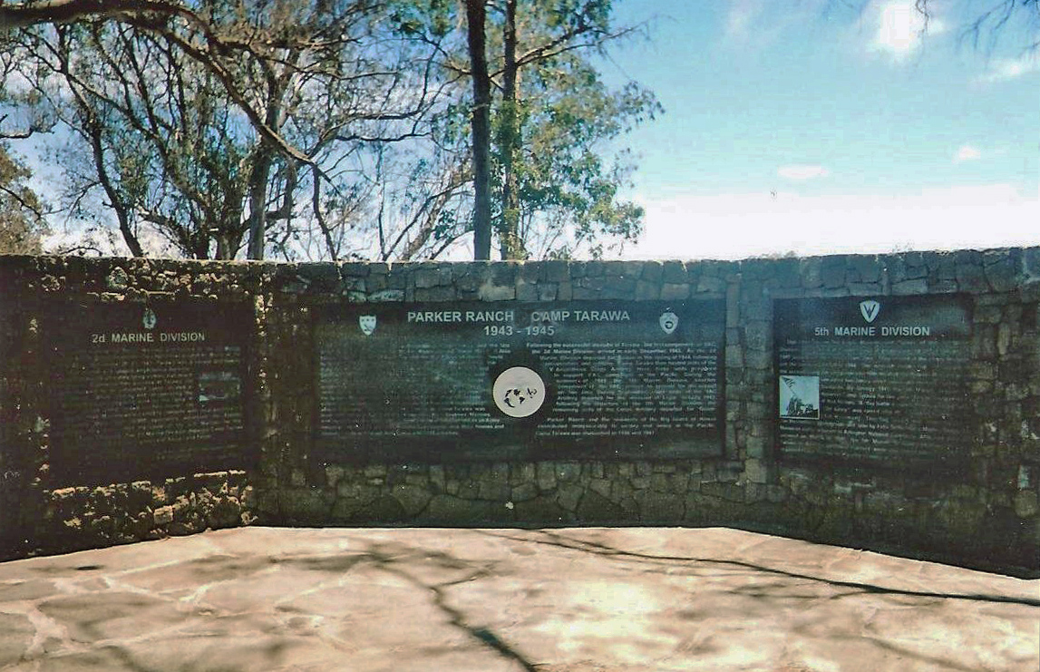 A picture of the memorial plaque where Camp Tarawa stood on the Parker Ranch.